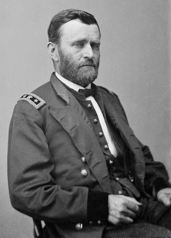 Gen. U.S. Grant - Category:Images of people of the American Civil War